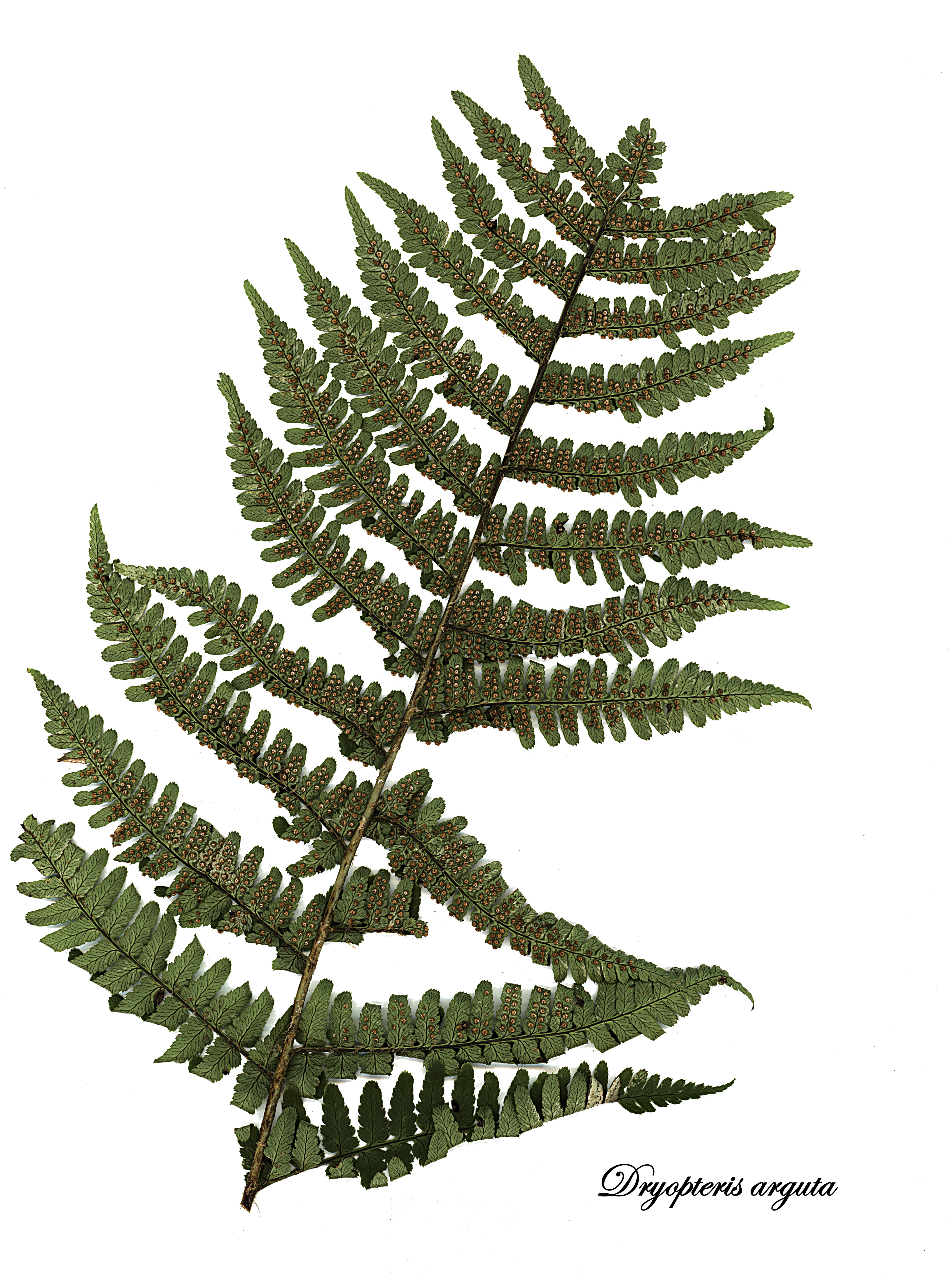 Dryopteris arguta—coastal wood fern. The back side of the fern. Ranges from Arizona and Baja California north to British Columbia. Also found in caves in Lava Beds National Monument. A good plant to grow under oaks as it needs no summer wather. Photographed at Regional Parks Botanic Garden located in Tilden Regional Parks near Berkeley, CA.